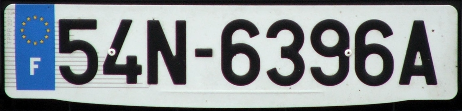 Vehicle licence plate from France used by police and customs vehicles as seen in 2008.